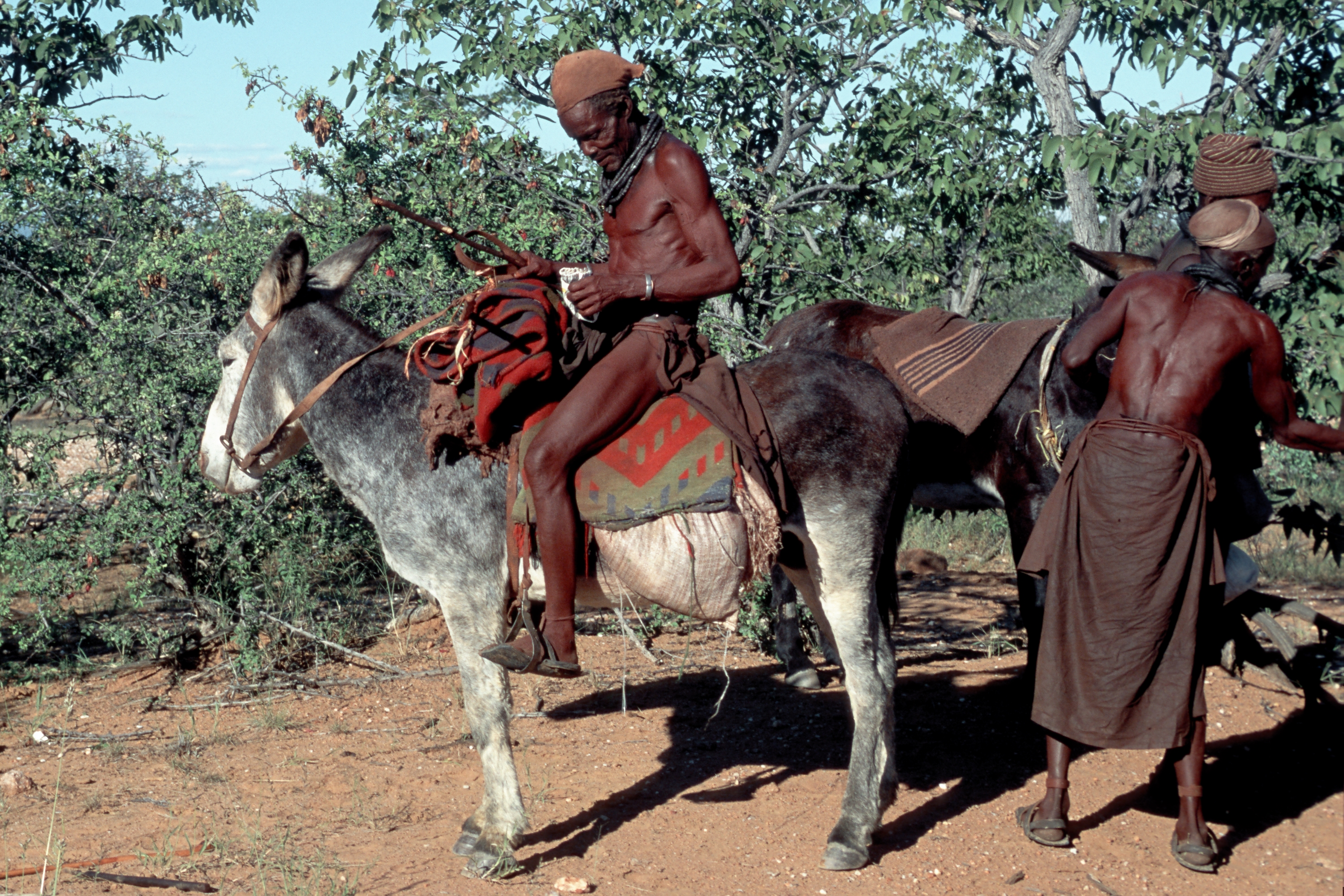 Himba Cowboys